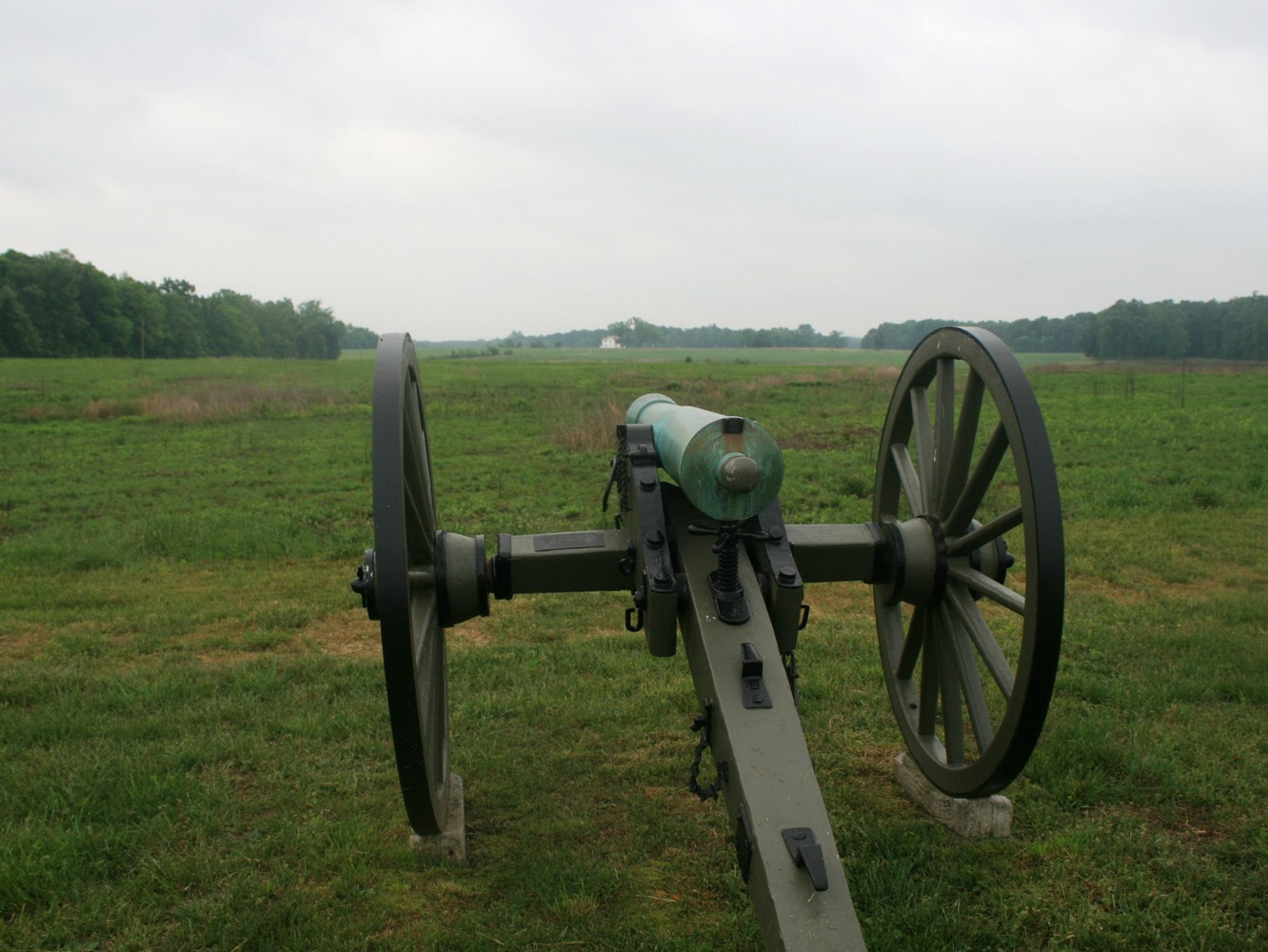 Confeerate battery, aiming West House.